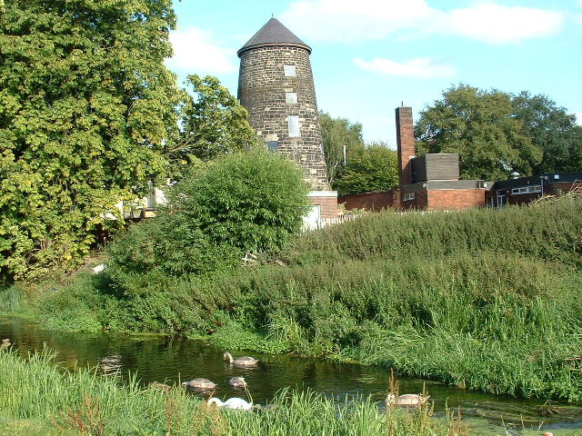 The converted tower mill at Broad Eye, Staffordshire